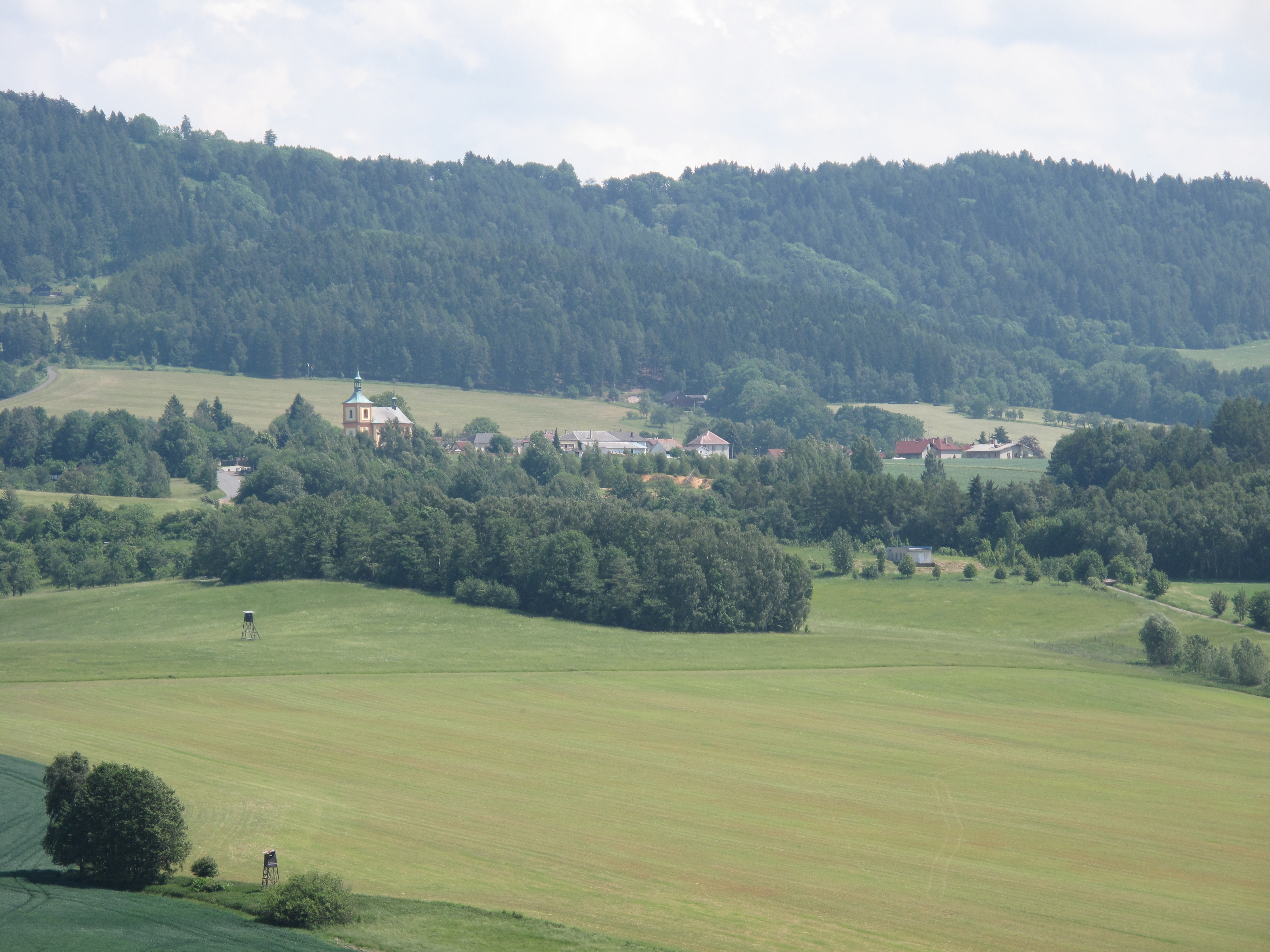 View at Tatobity village as seen from Volavce village, Semily District, Czech Republic.